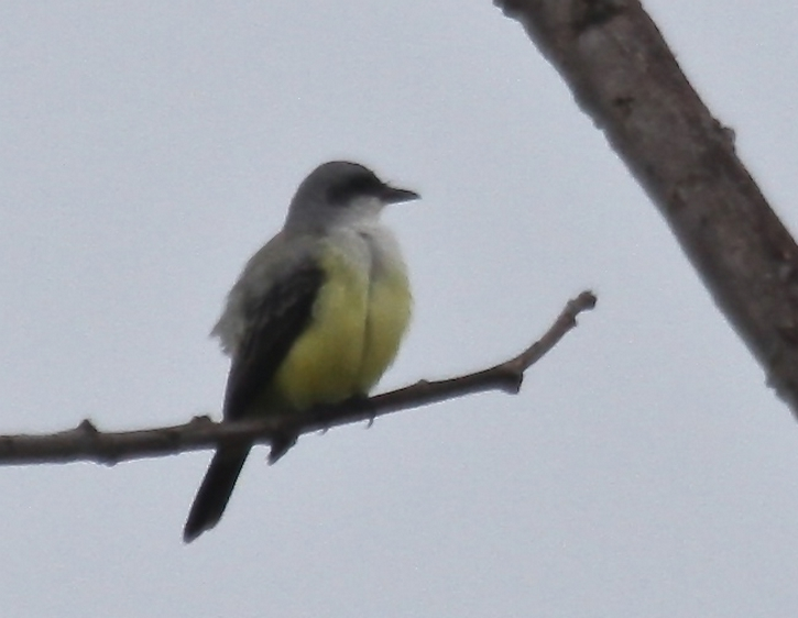 South of Guaquil, Ecuador